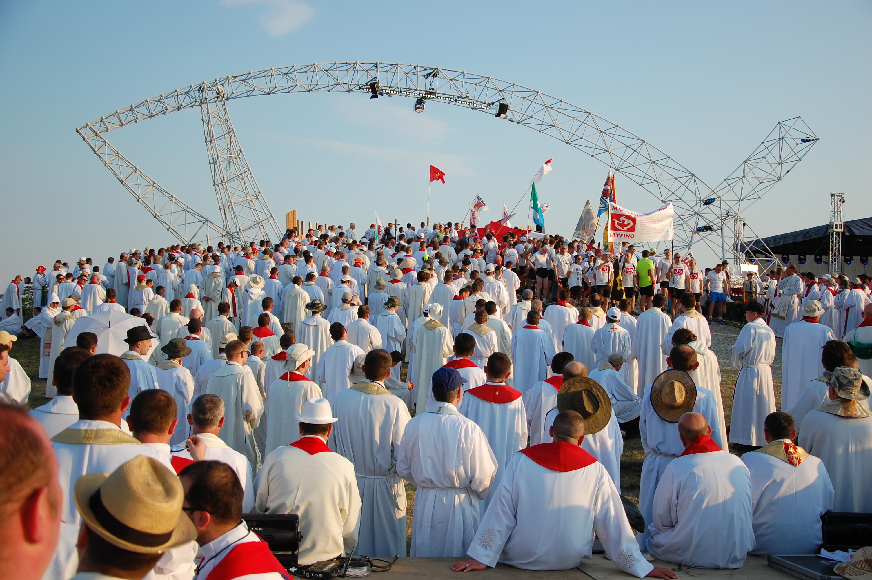 priests concelebrating Holy Mass during youth meeting LEDNICA 2000